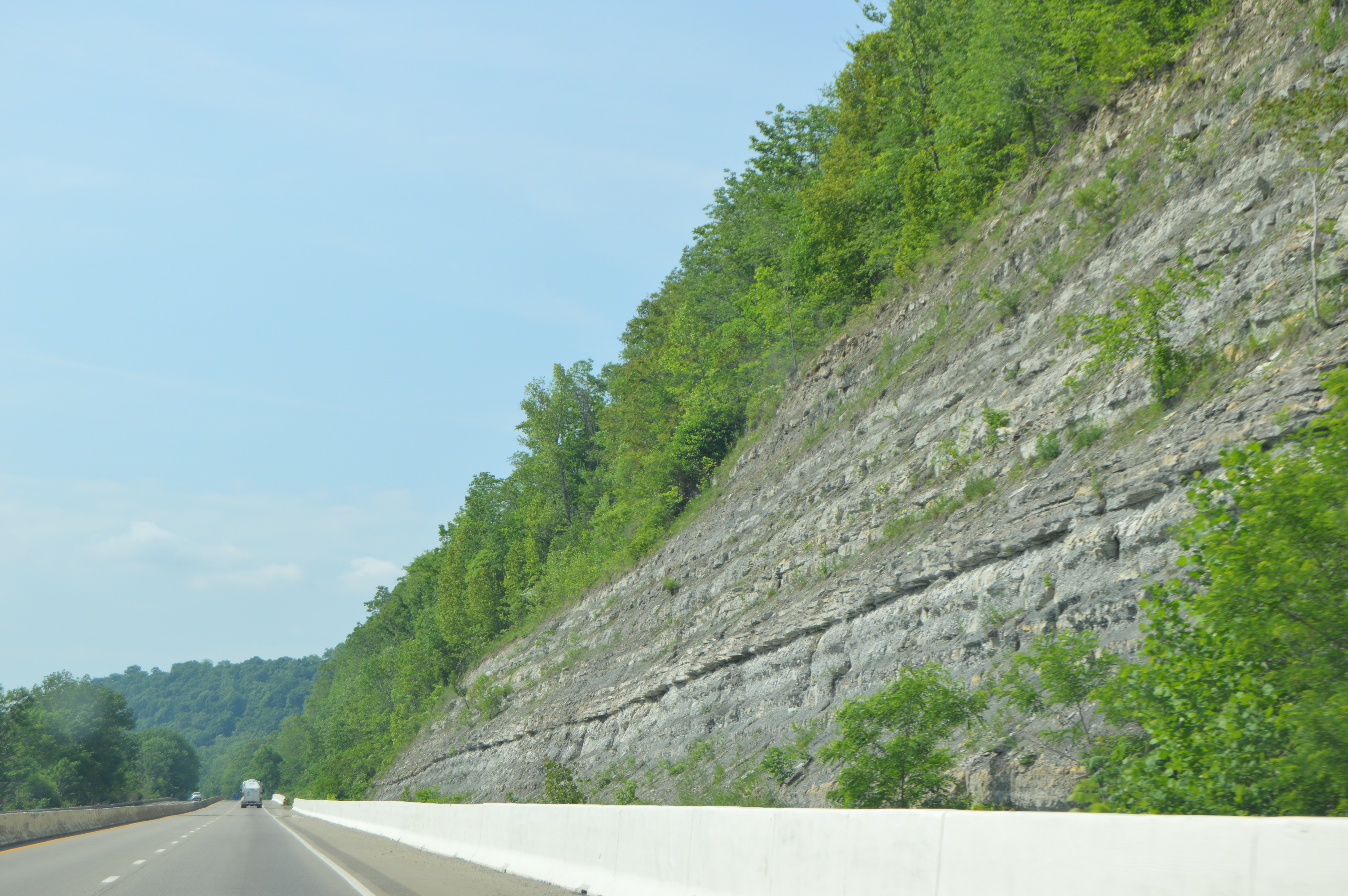 Cliffs along State Route 7 south of Shadyside in Mead Township, Belmont County, Ohio, United States.